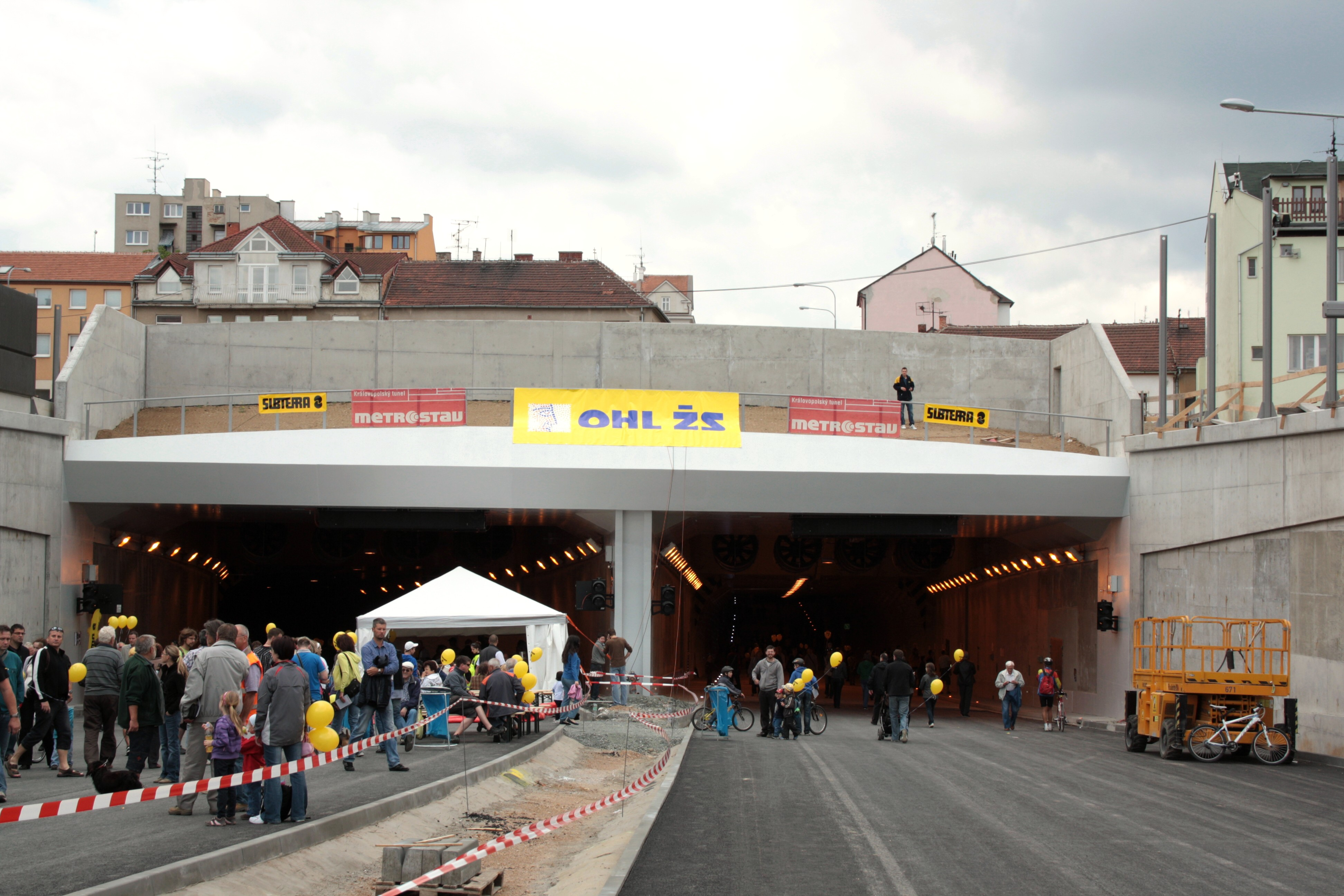 Open doors day in Královo Pole Tunnel, Brno, Czech Republic This photograph was taken with a DSLR from WMCZ's Camera grant.